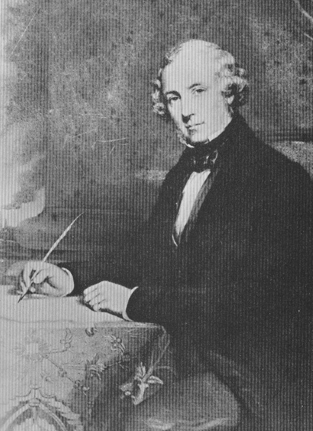 Plate from Owen, J. A. (1977) The History of the Dowlais Iron Works 1759-1970, Newport, Gwent: Starling Press ISBN 0-503434-27-X Invalid ISBN